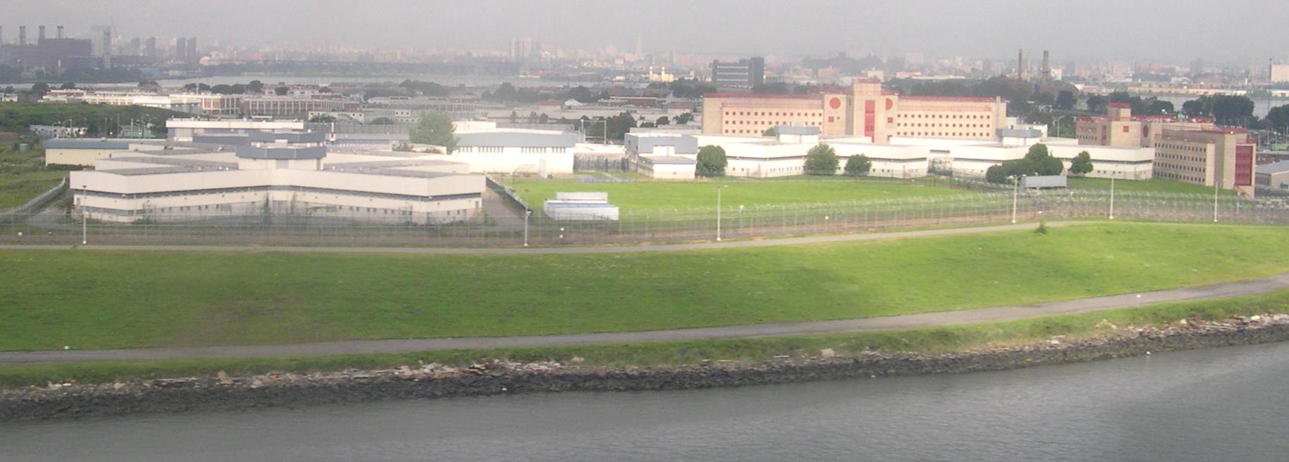 Rikers Islands of Queens New York